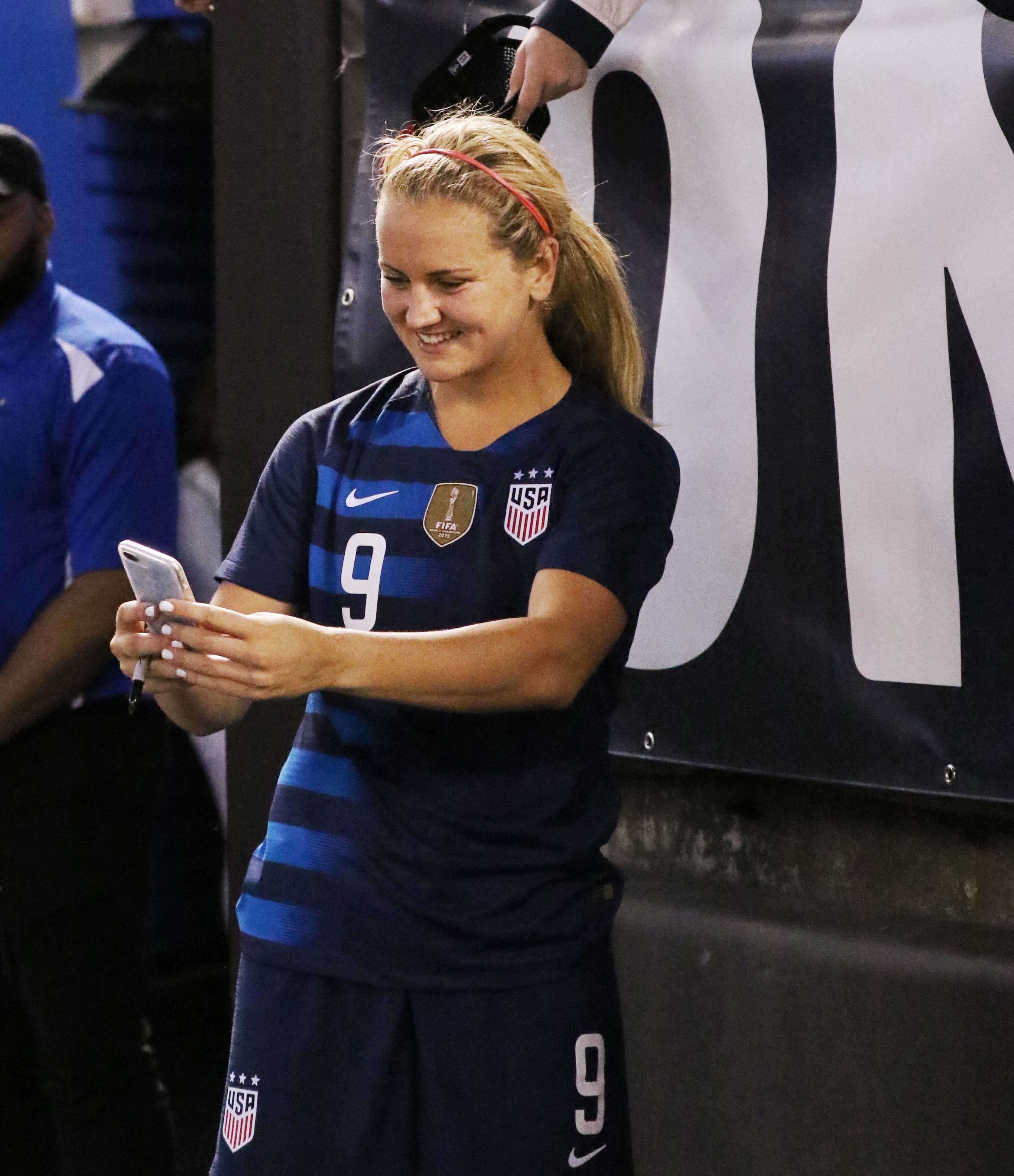 Lindsey Horan